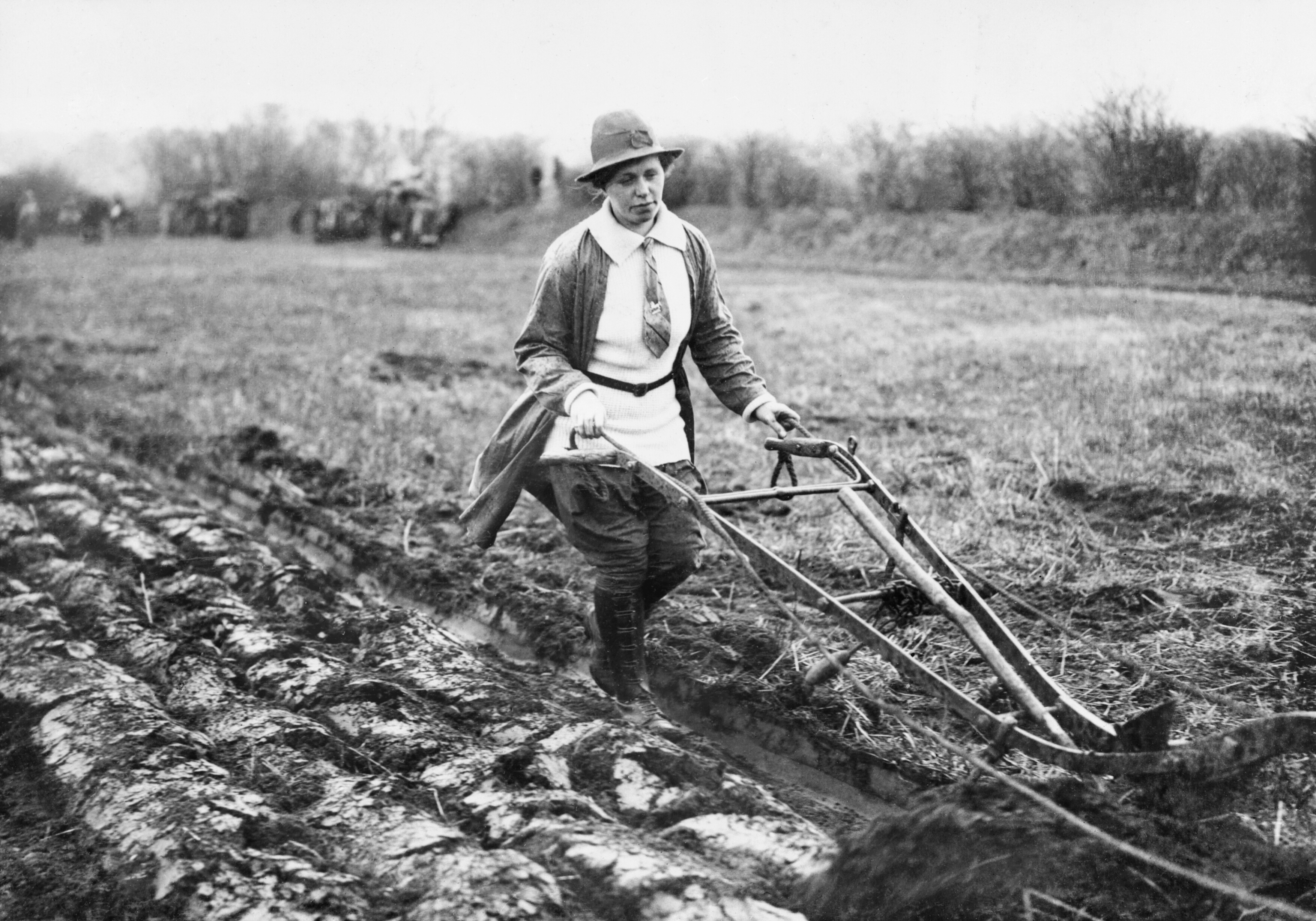 Agriculture in Britain during the First World War Members of the Women's Land Army operates a single-furrow plough on a British farm during the First World War.